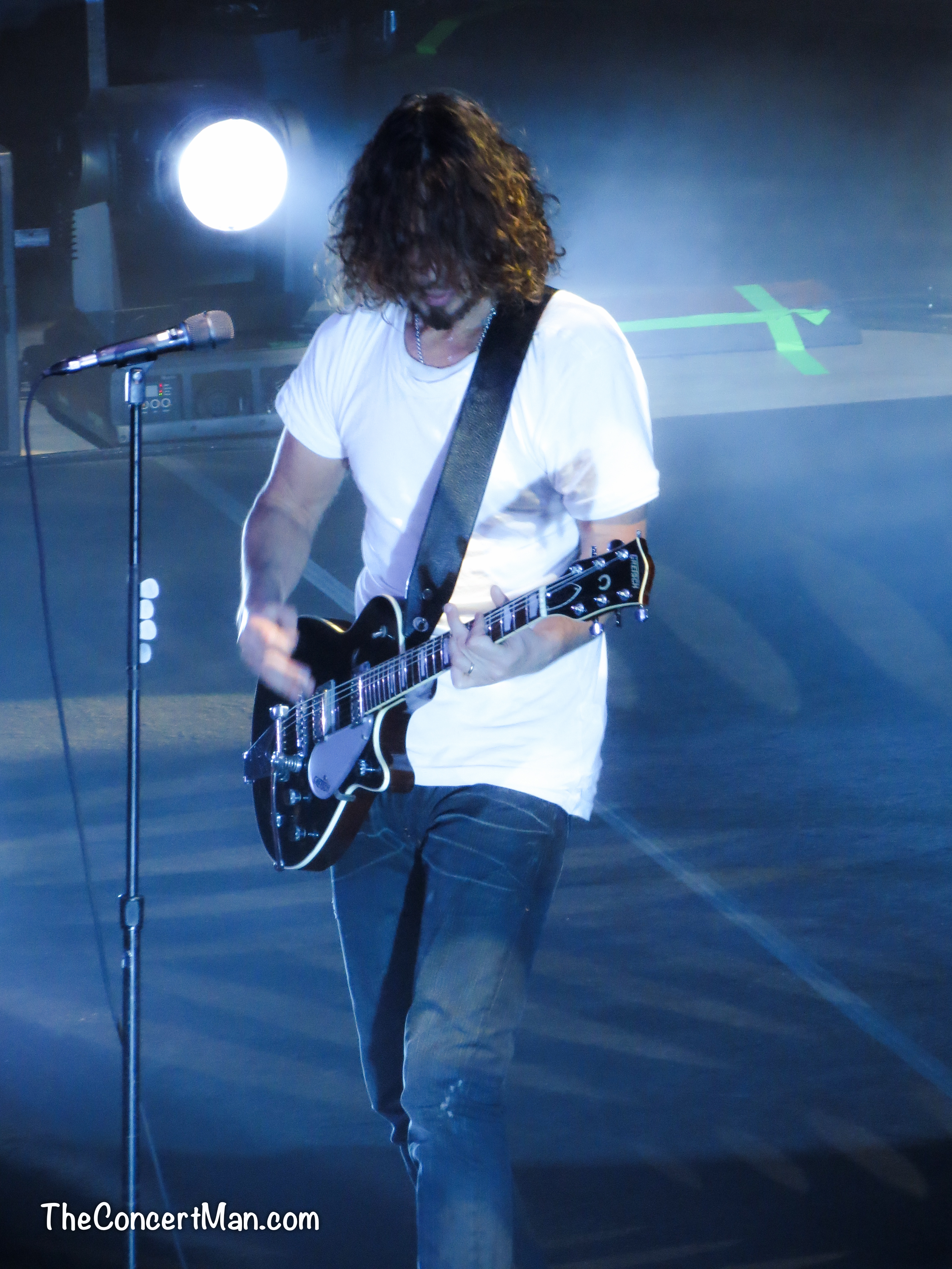 Chris Cornell live at 2013.